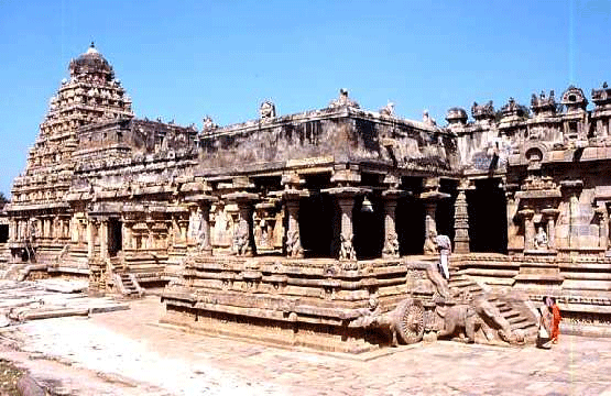 Airavateswarar Temple in Darasuram. Tamil Nadu. This is a beautiful example of the Chola Temple style of the later Chola period. This was built during the reign ot Raja Raja III. From my collection of photographs.